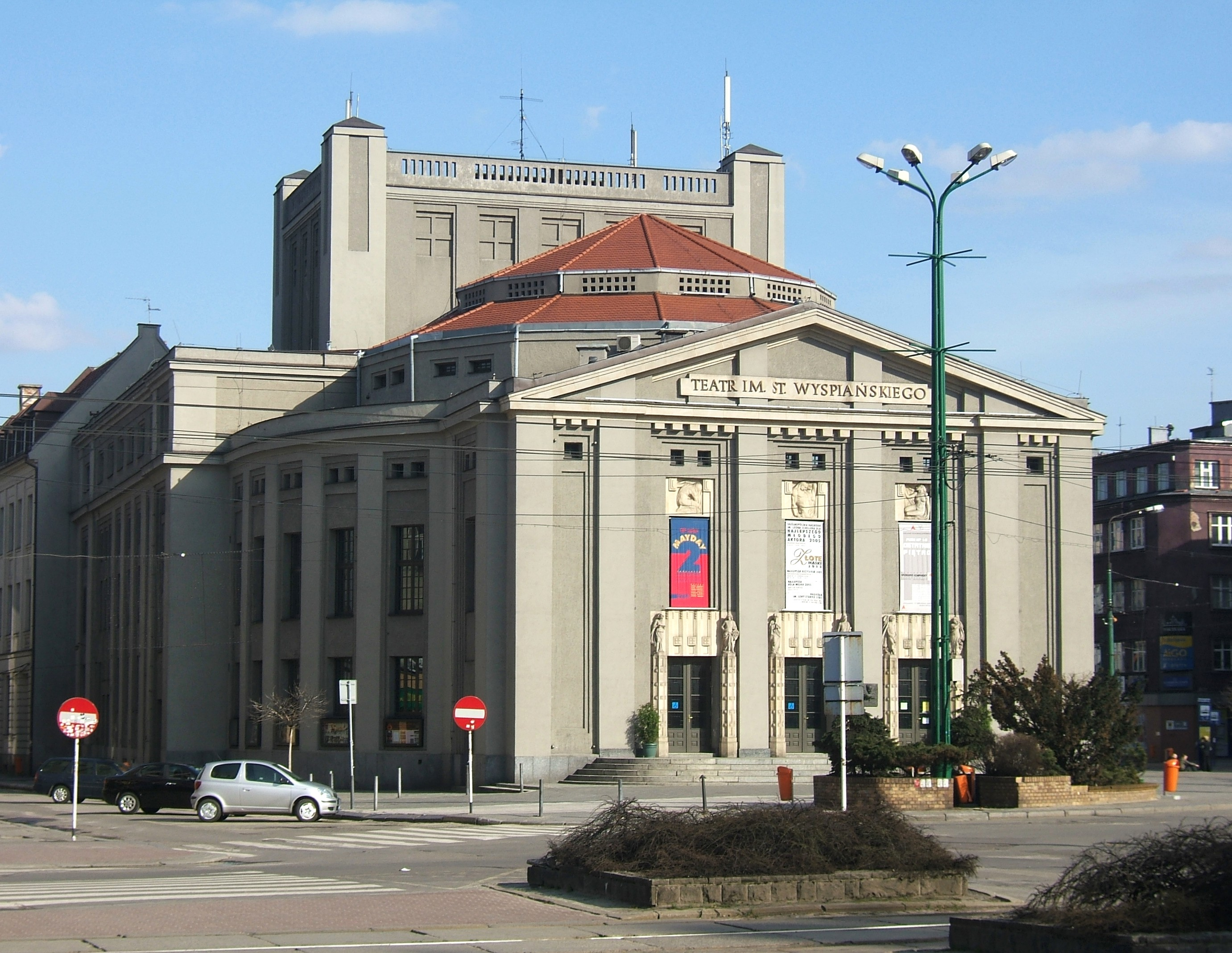 The Silesian Theater (Teatr Śląski im.Stanisława Wyspiańskiego) in Katowice (1905-1907).